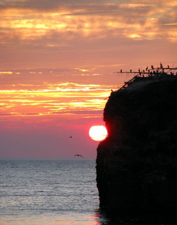 This is a sunset at the public beach in Pokeshaw, including a view of the rock island found at the site.